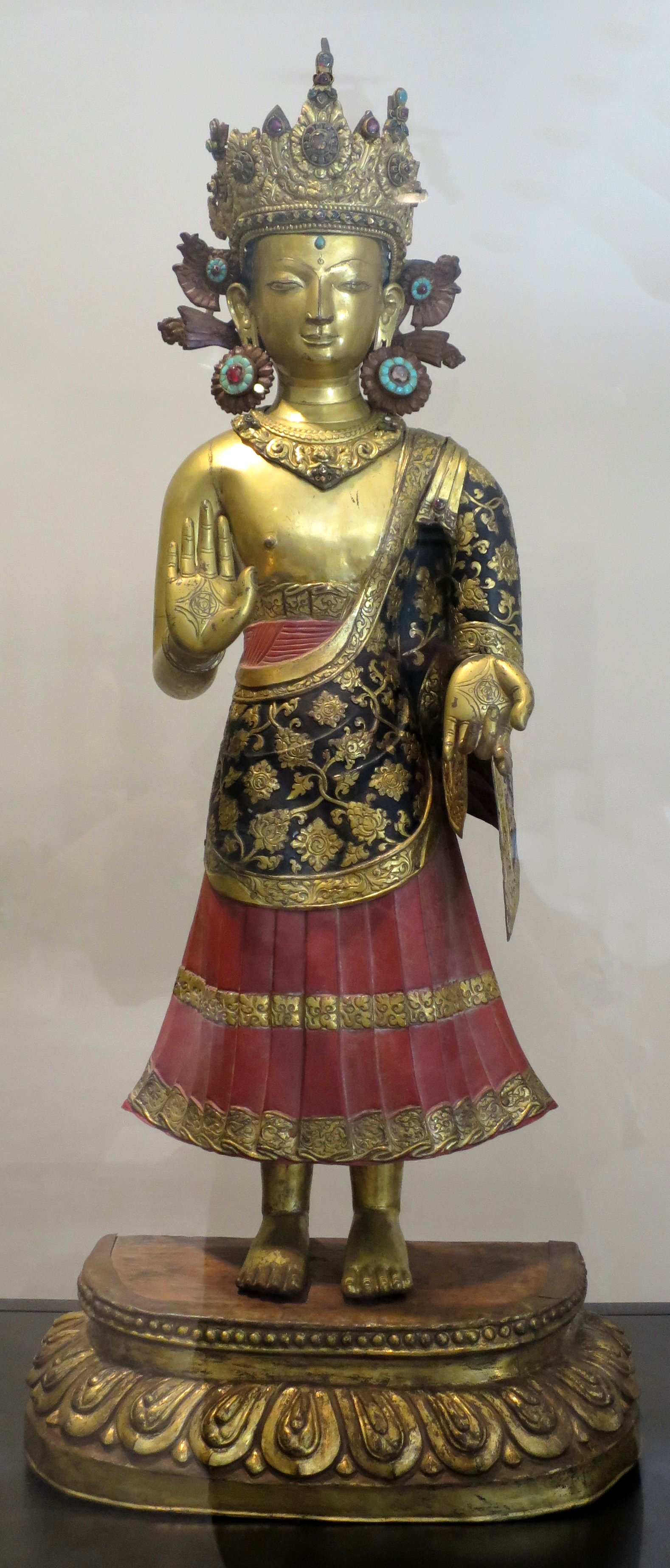 Dipankara Buddha, Nepal, c. 1600-1650, gilt and enameled copper with semiprecious stones and pigment, Norton Simon Museum